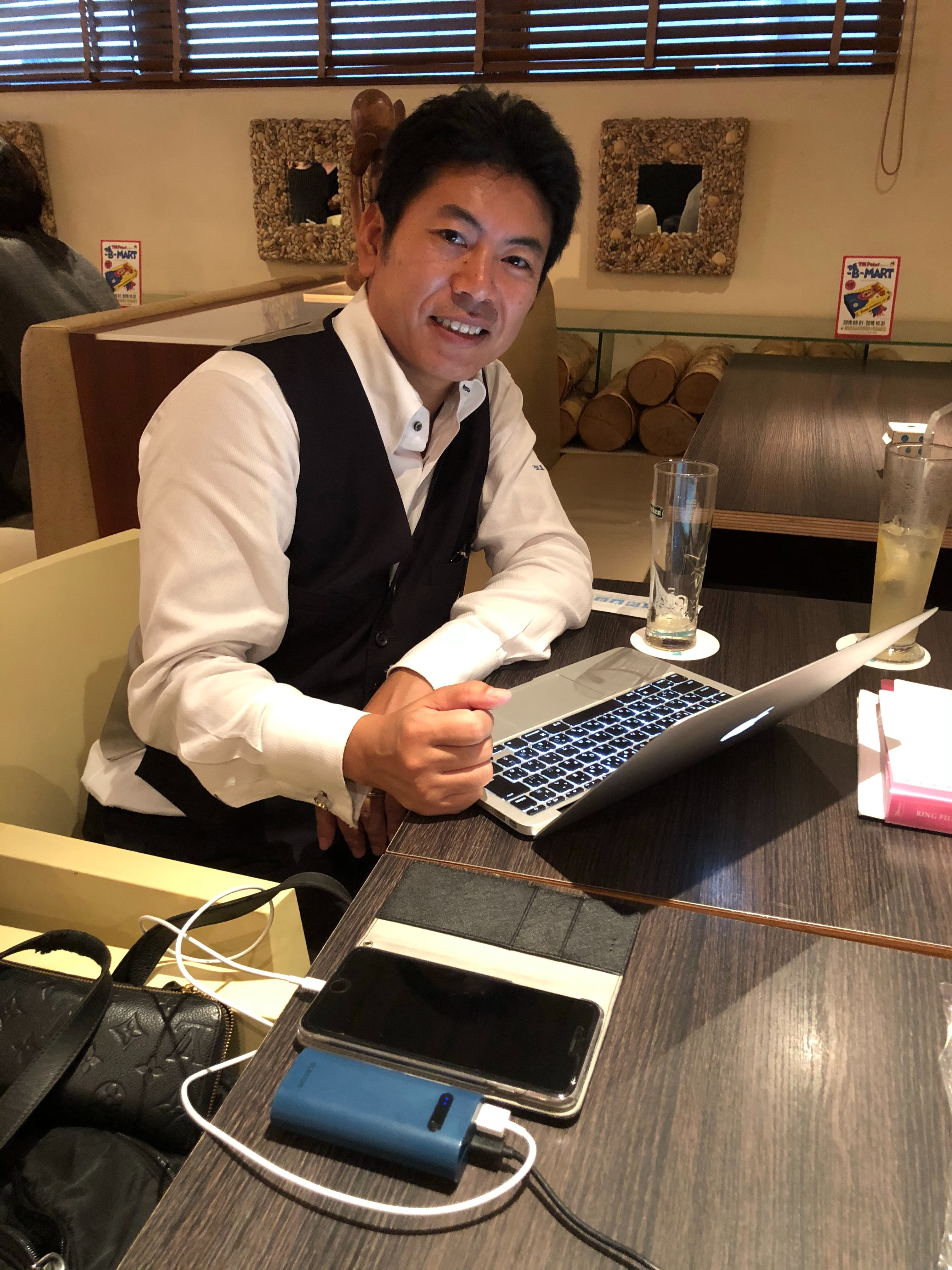 作家・石井貴士（都内撮影・2019年10月某日）